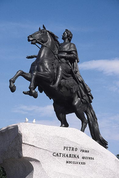 Peter I of Russia